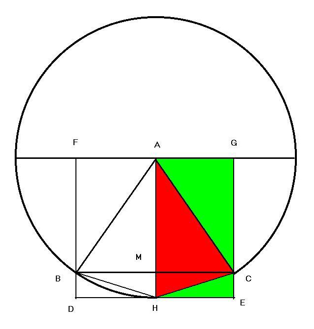 Area of inscribed regular dodecagon内接正十二边形面积